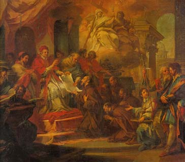 "Urban VI approves the Blessed Peter Gambacorta's rule, by Sebastiano Conca. Pisa, Museo nazionale di Palazzo Reale